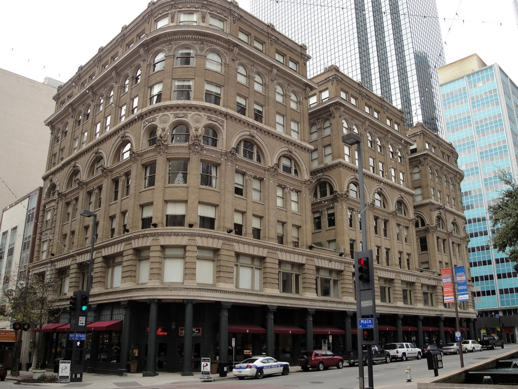 Exterior view of historic Wilson Building in downtown Dallas, Texas as seen from Main Street.